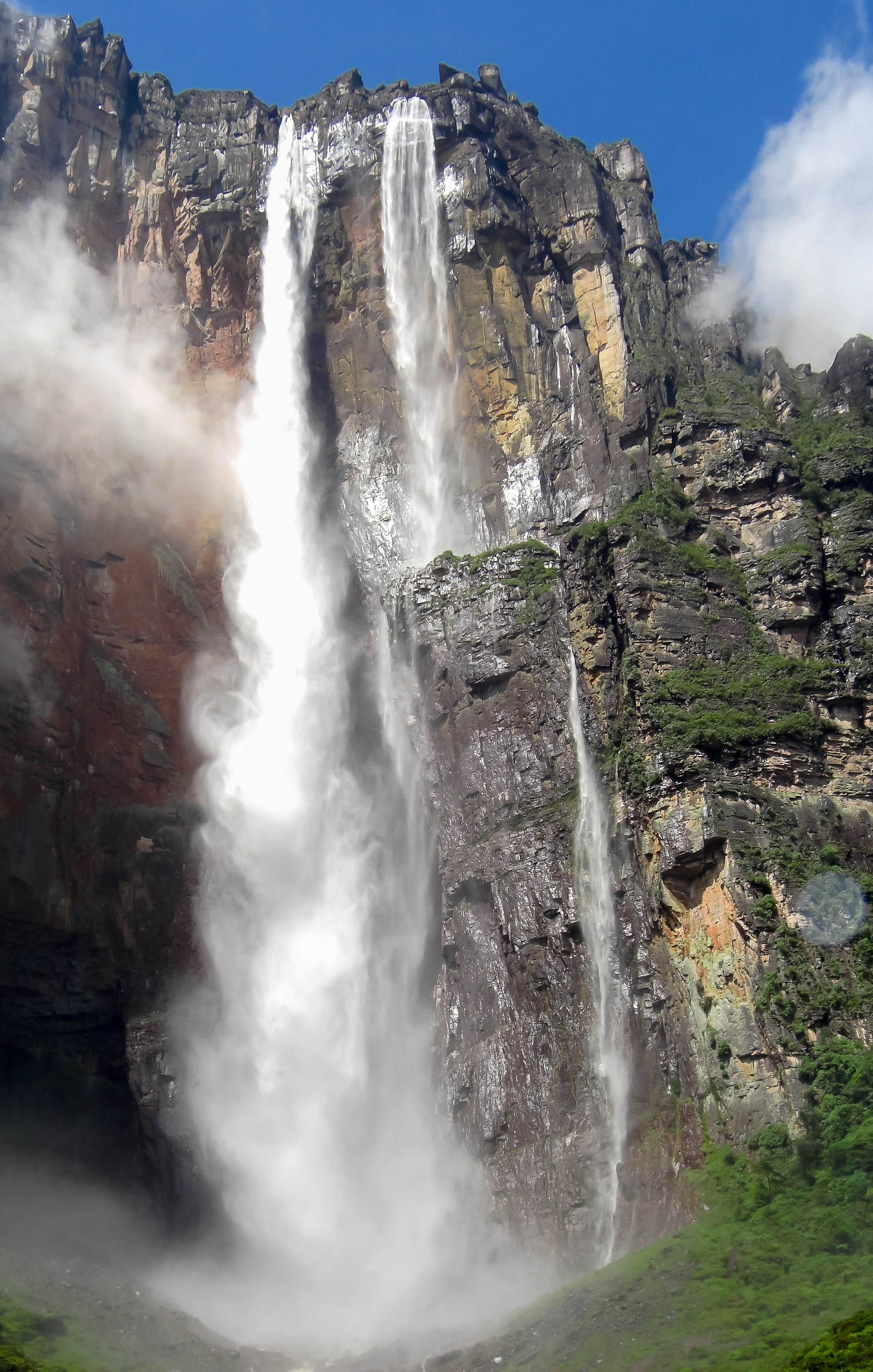 Salto Angel, Canaima, Venezuela